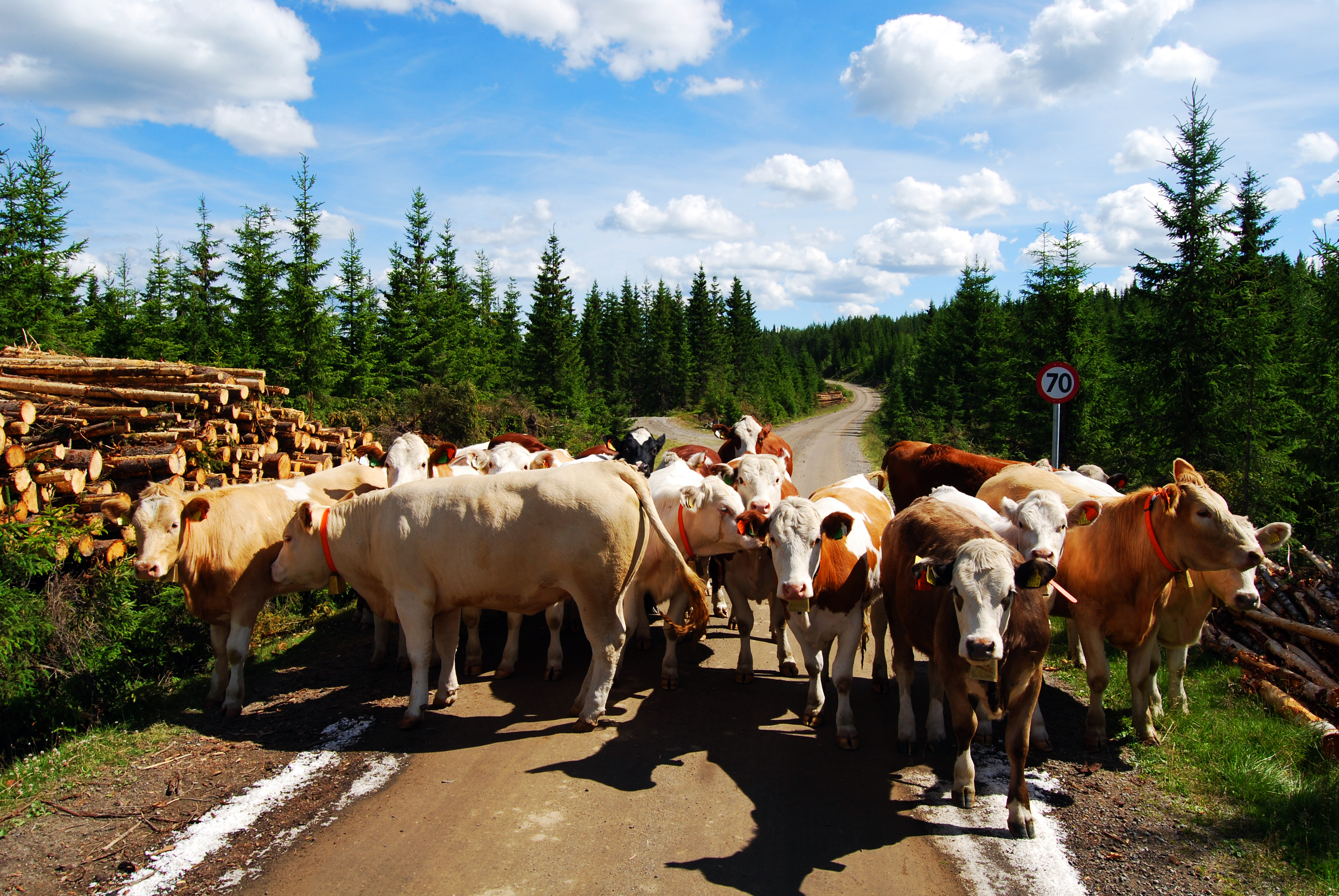 Cows closing a land road in northern Hamar.